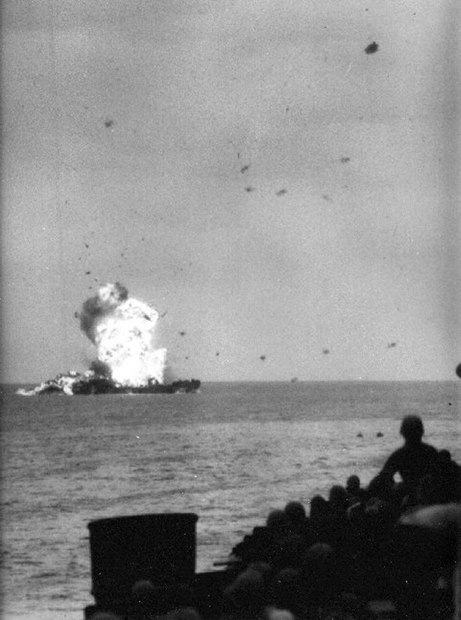 USS LST-447 being hit by a Japanese kamikaze pilot, 6 or 7 April 1945, off the Okinawa beachhead, Fortunately, LST-447 was empty after discharging her cargo on the beach, on D-day, 1 April 1945.